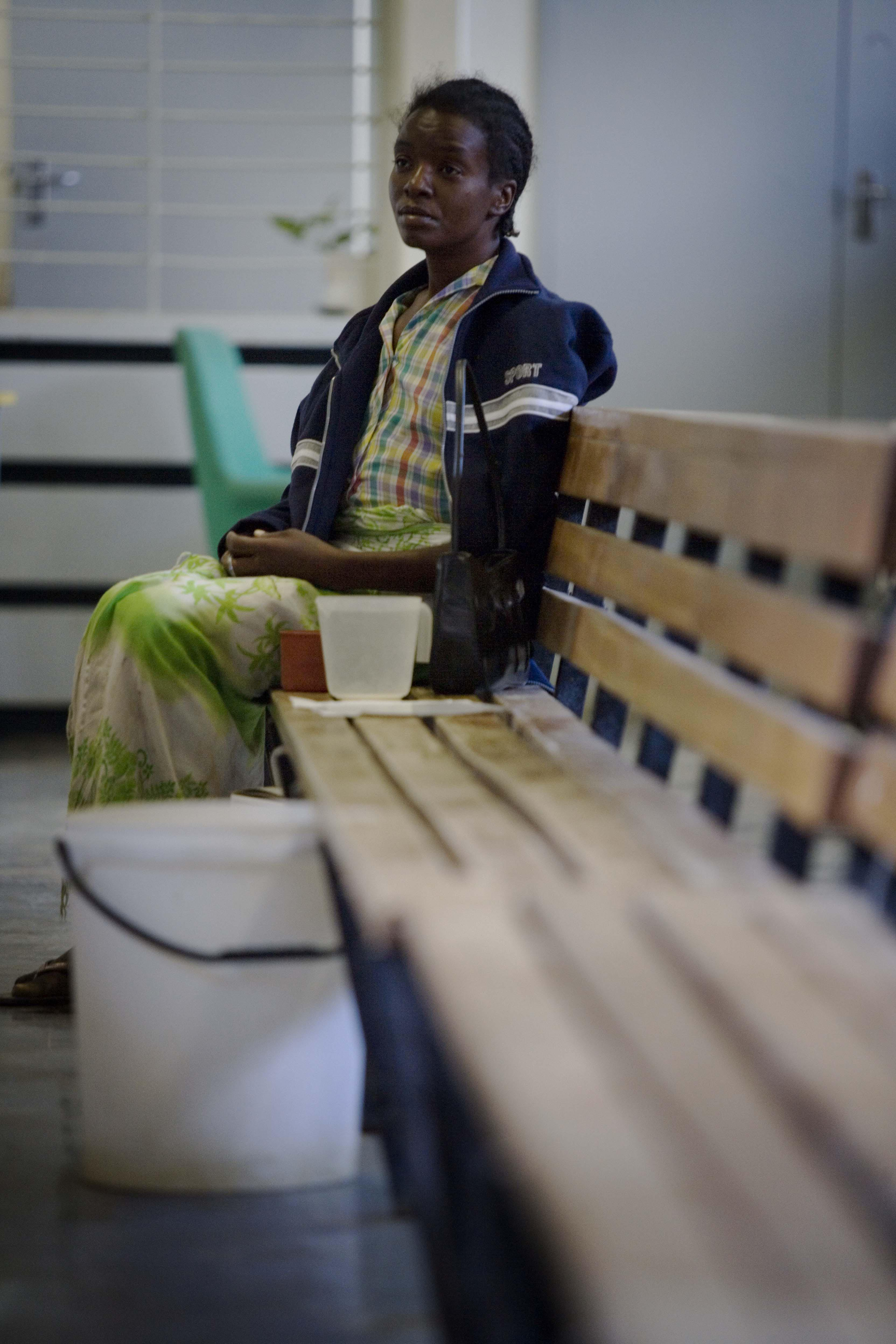 A woman waits to be tested at a cholera treatment centre in the Budiriro District, that was badly affected by cholera, in Harare, Zimbabwe on the 21st April, 2009. Photo: Kate Holt / AusAID